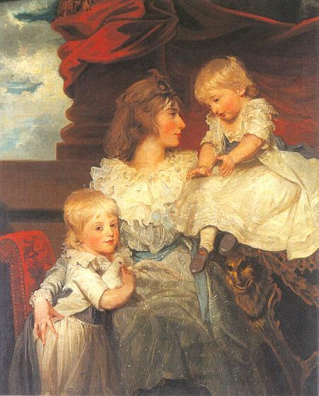 Henrietta (generally called Harriet), Viscountess Duncannon (later Countess of Bessborough) and her two sons, Frederick and John Ponsonby (later the 4th Earl of Bessborough).